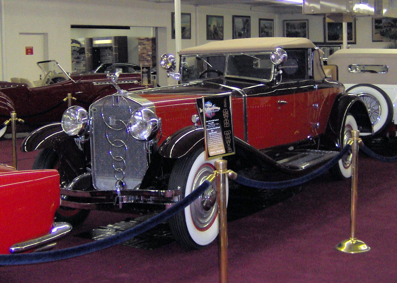 1929 Isotta Fraschini Tipo 8AS Castagna Roadster (Country of origin: Italy)